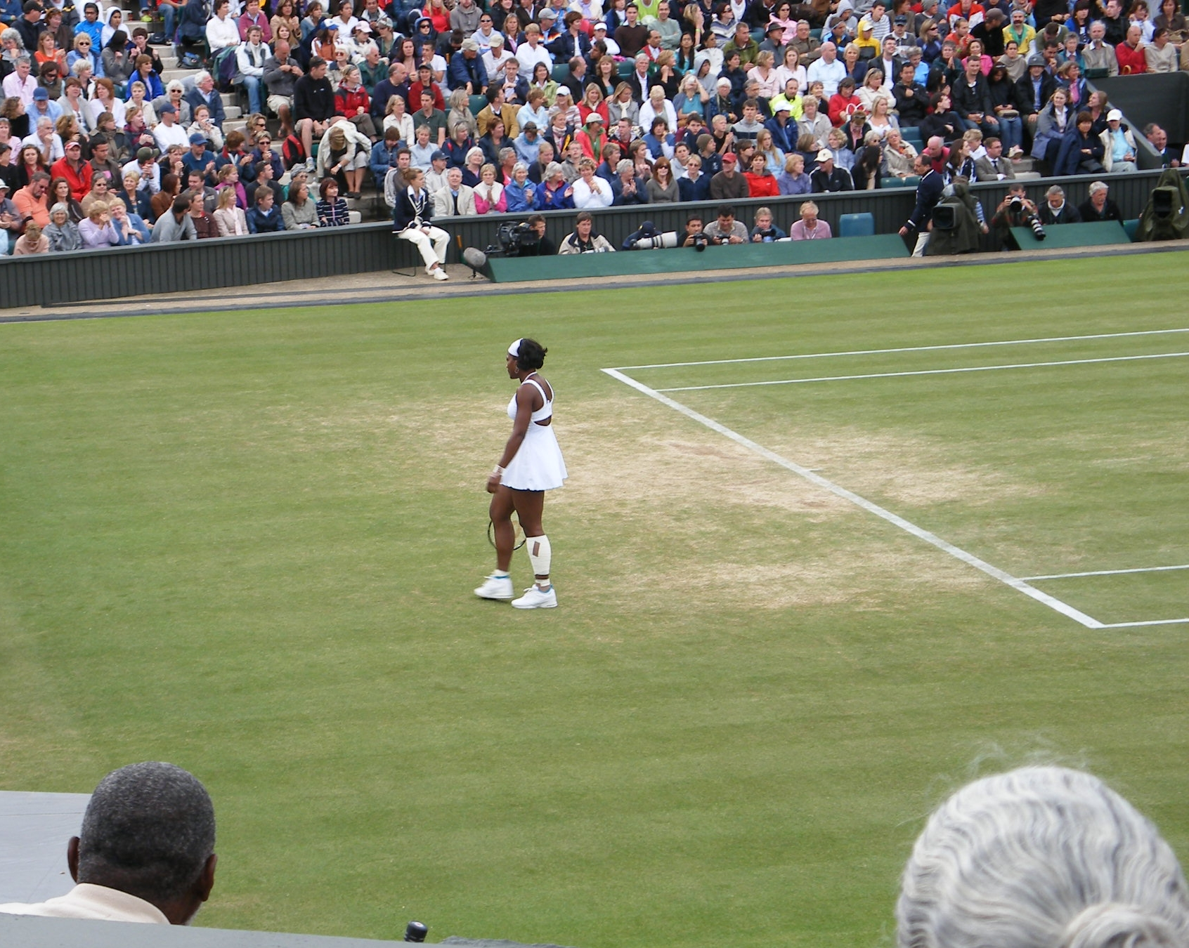 Serena Williams serves against Justine Henin at Centre Court, Wimbledon. Her father Richard can be seen in the bottom left corner.